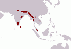 Range map of Asian Elephant Elephas maximus